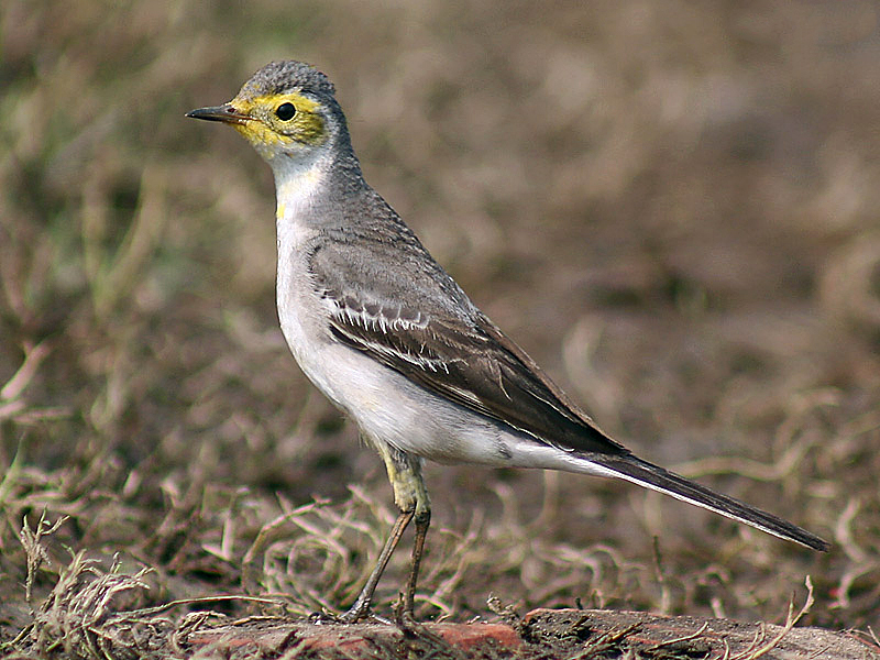 Citrine Wagtail Motacilla citreola in Kolkata, West Bengal, India.